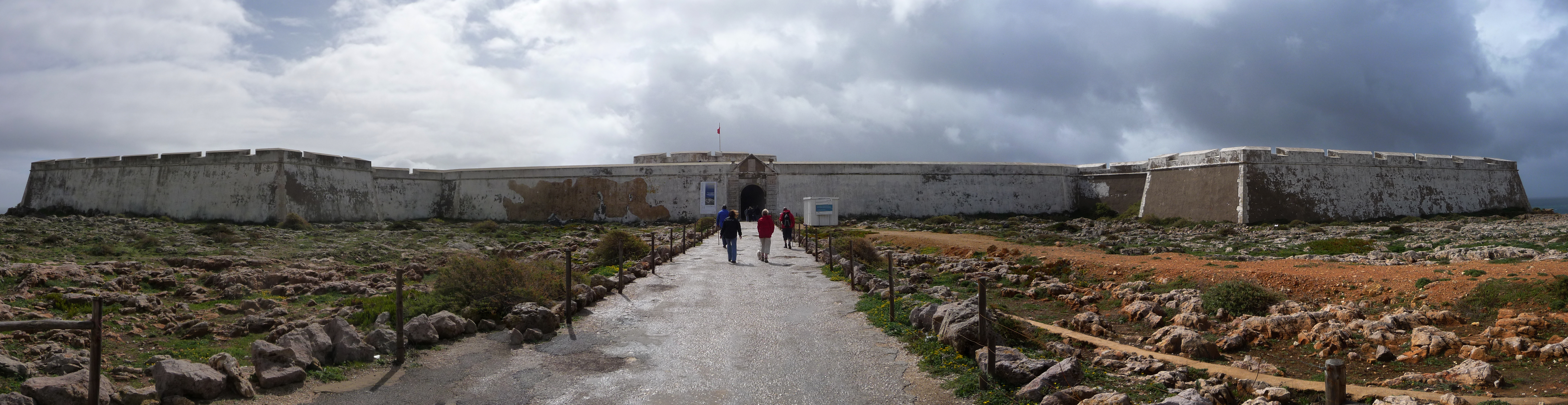 Fortaleza de Sagres, Sagres/Portugal